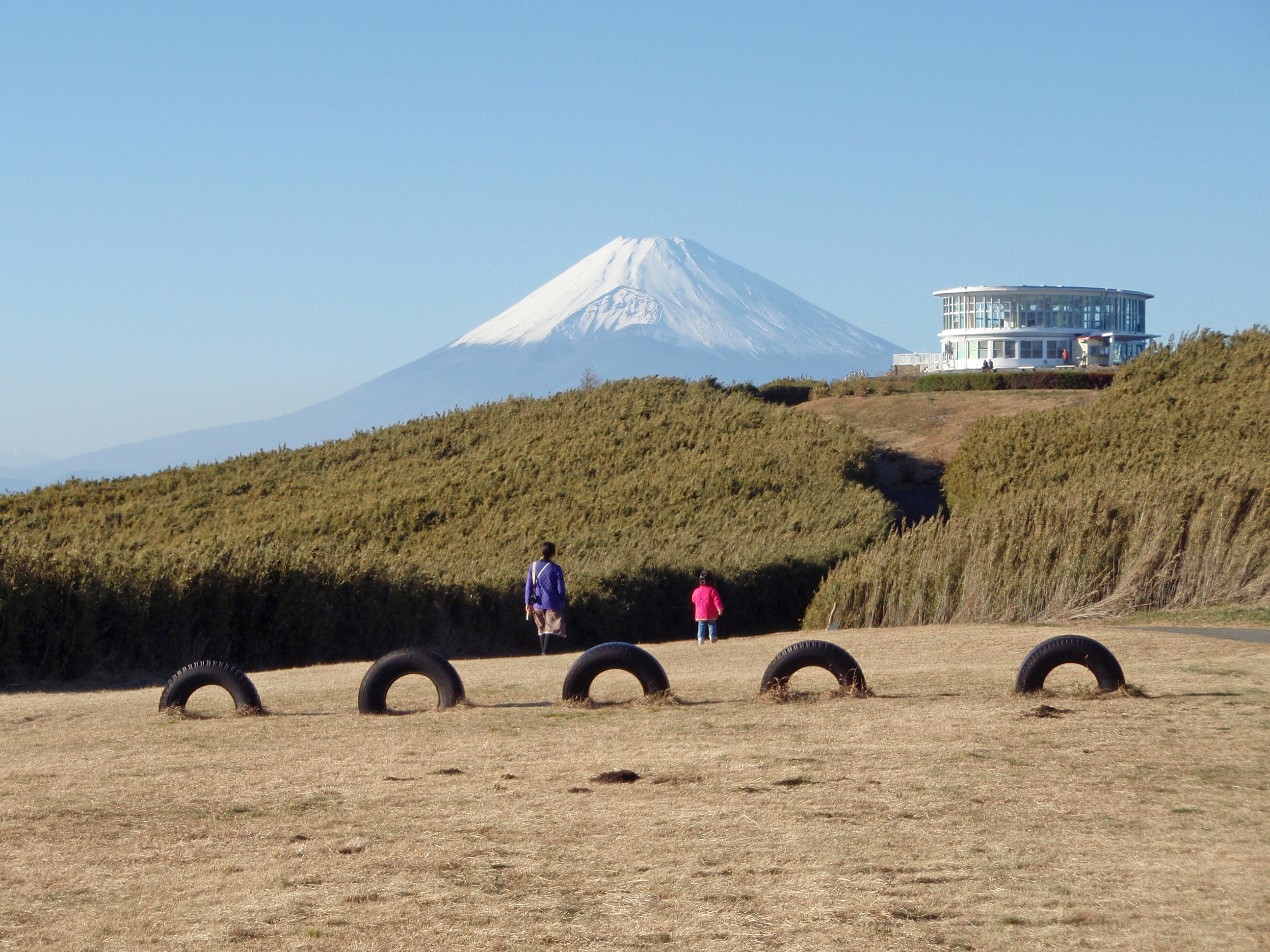 Mount Fuji and Jukkokutōge Station in Shizuoka Prefecture, Japan.